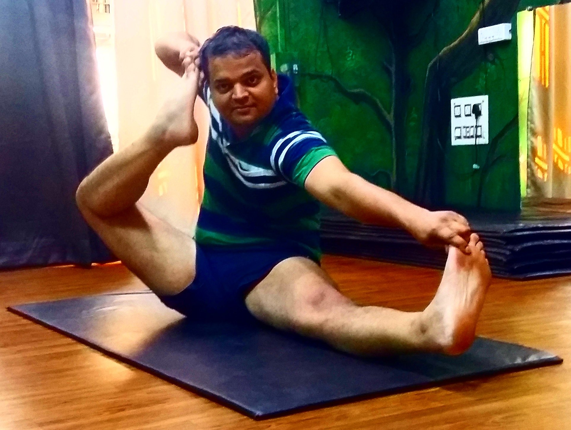 Akarna Dhanurasana by Sadhak Anshit